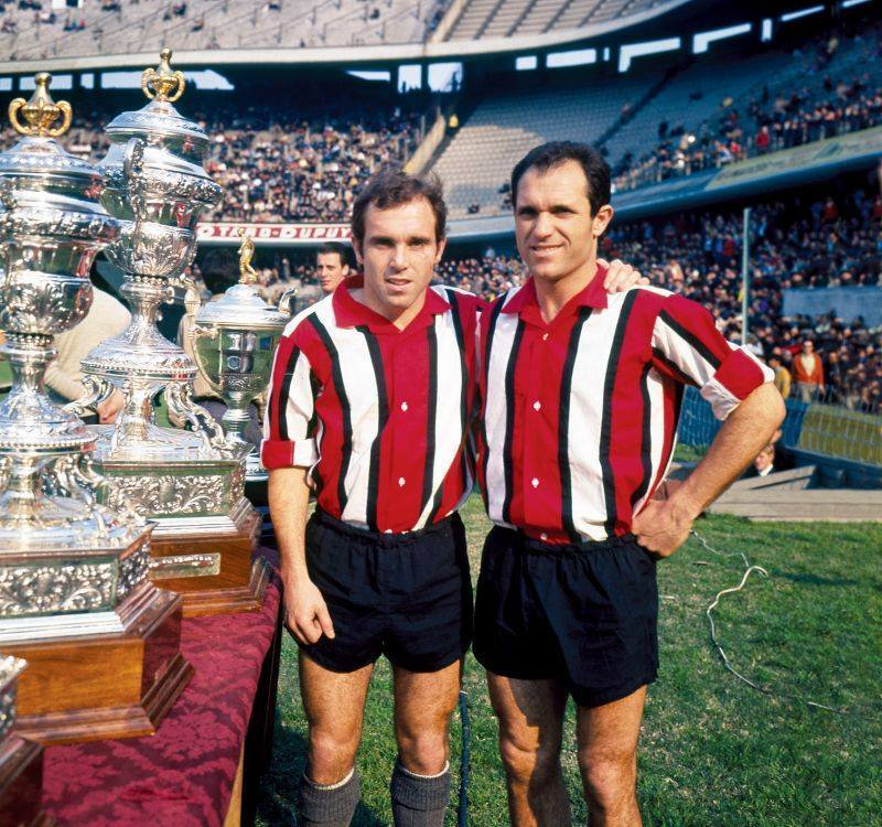 River Plate players Daniel Onega (left) and his brother Ermindo Onega (right).